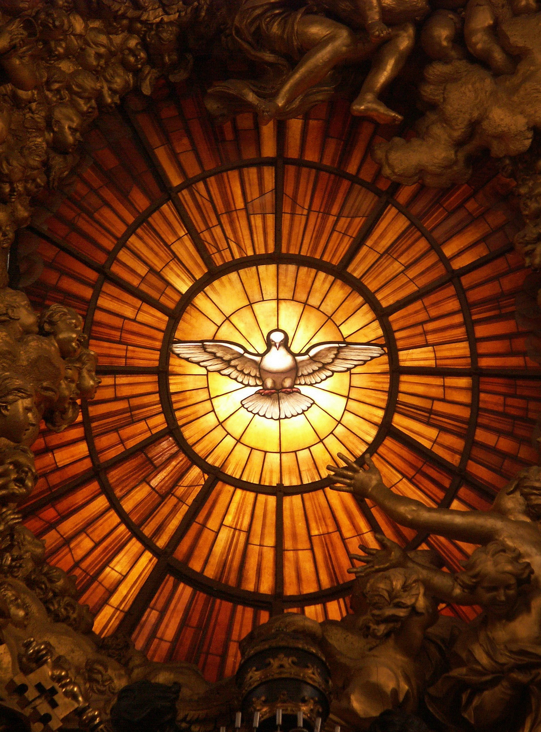 Gian Lorenzo Bernini, Dove of the Holy Spirit (alabaster stained glass, Chair of Saint Peter, Saint Peter's Basilica, Vatican City), ca. 1660